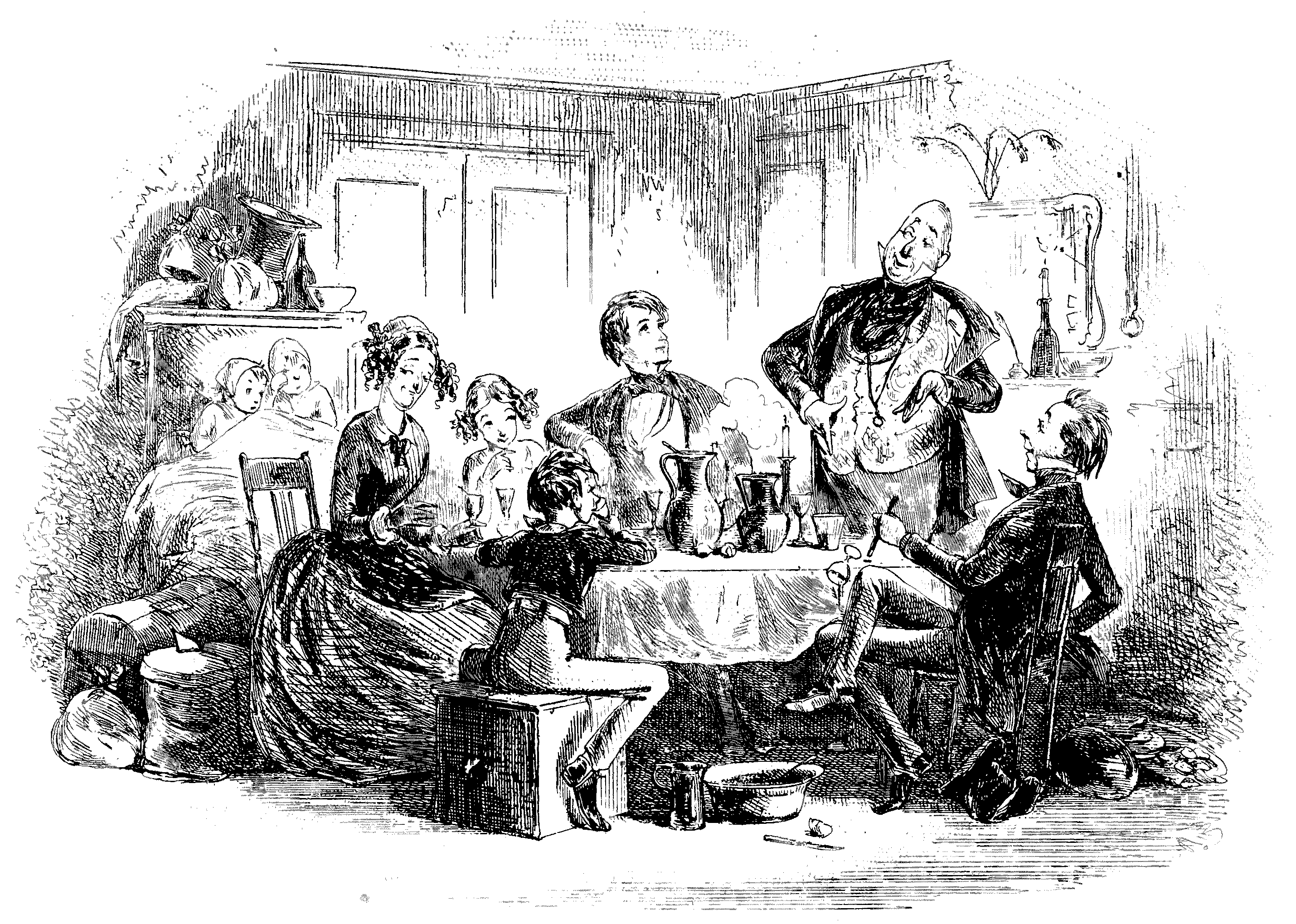 MR. MICAWBER DELIVERS SOME VALEDICTORY REMARKS